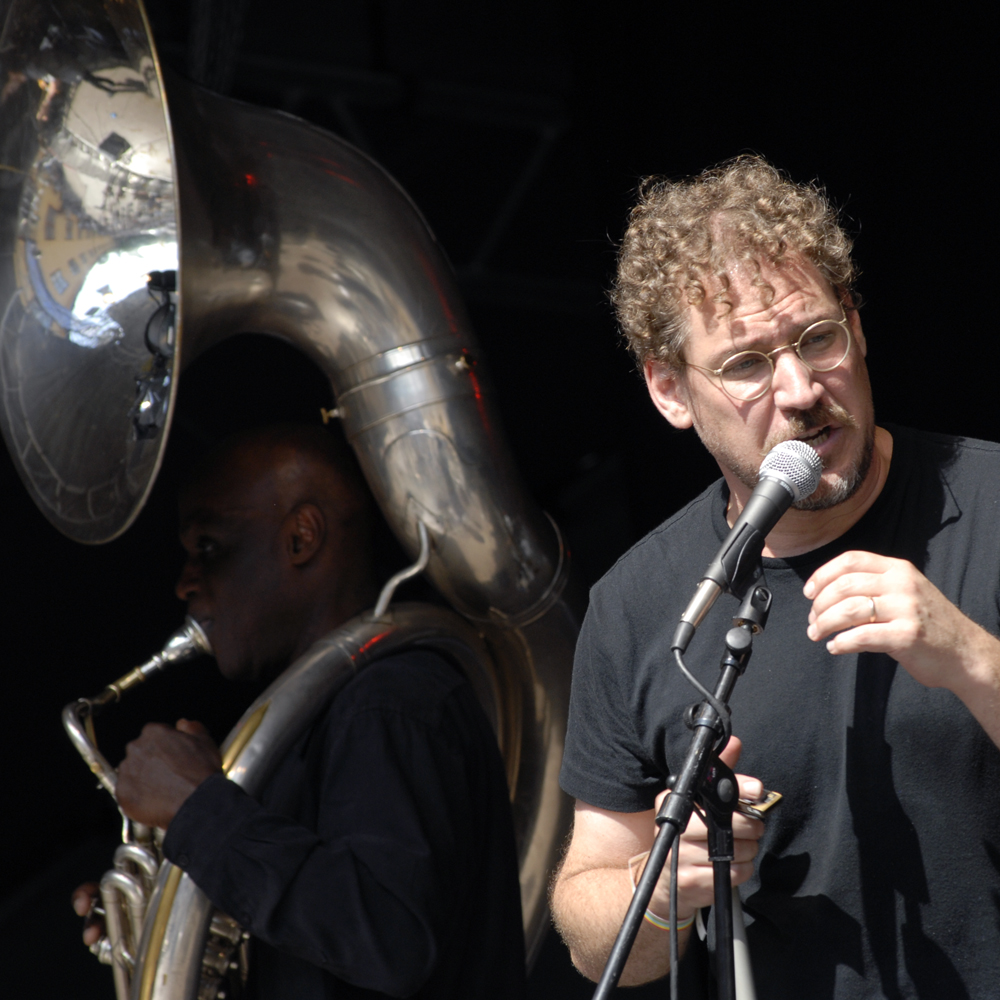 Hazmat Modine from New York performing at Stockholm JazzFest09